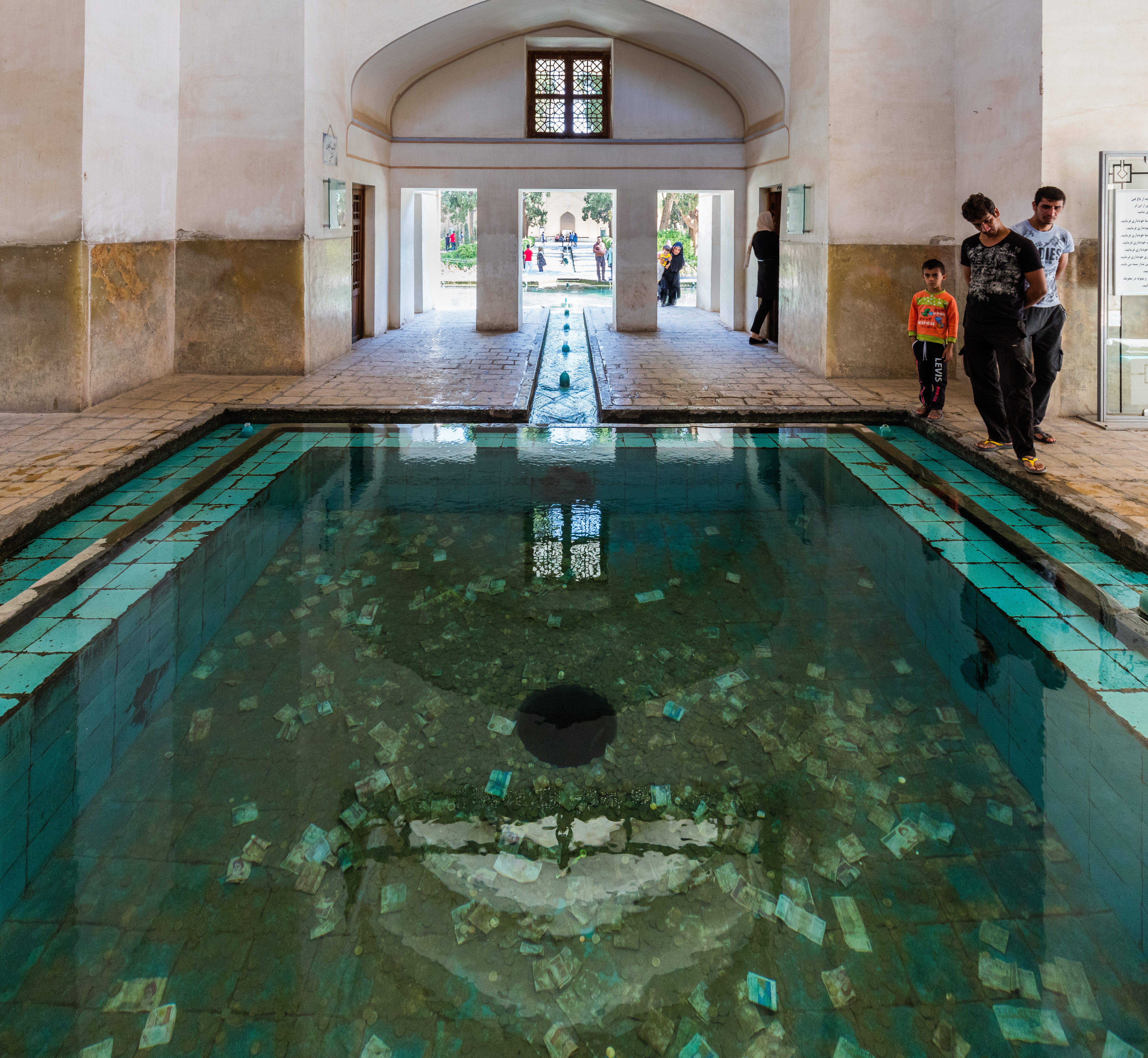 Fin Garden, Kashan, Iran